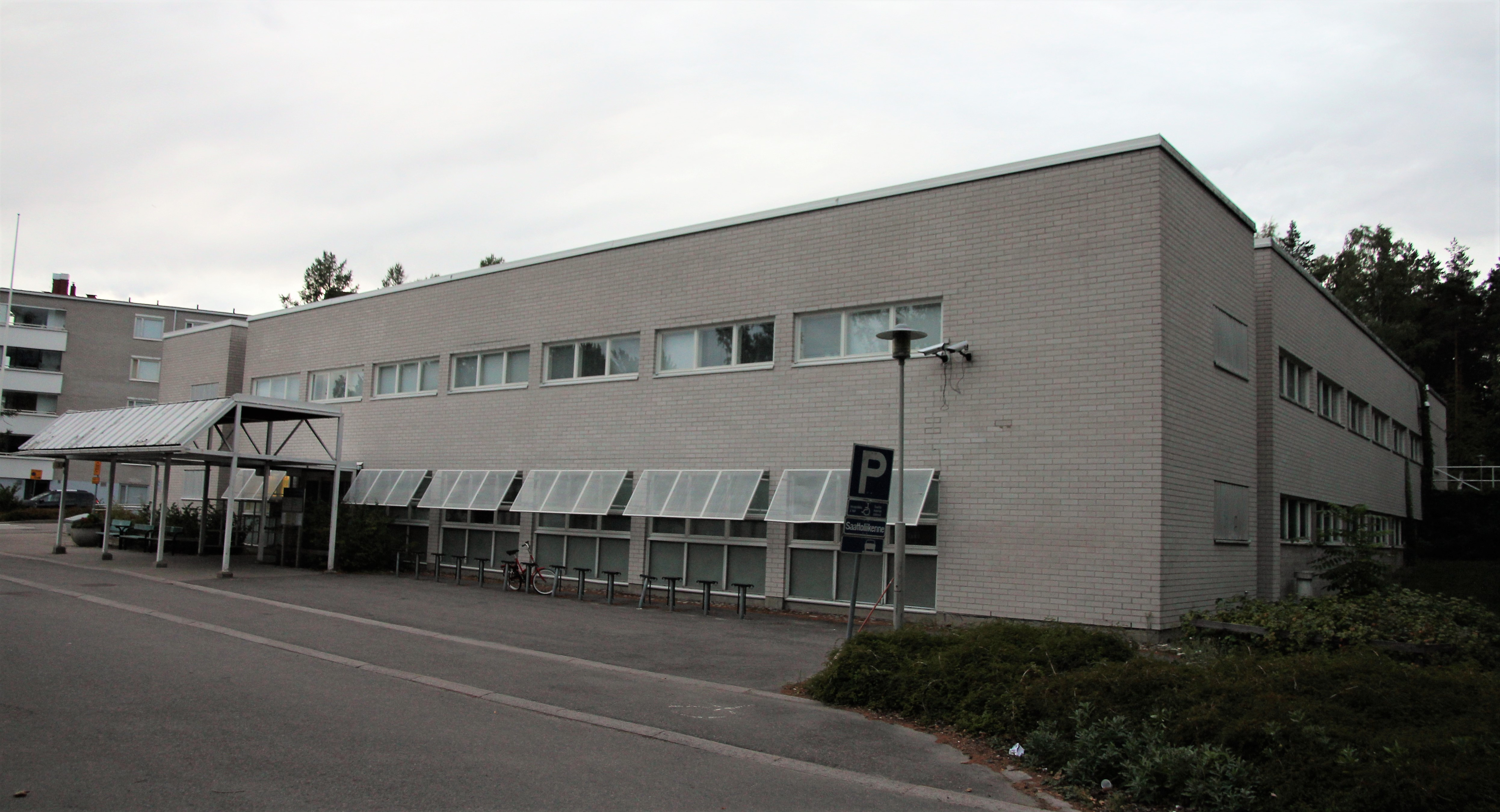 Maunula health centre (station), address: Suursuonlaita 3 A, 00630 Helsinki.